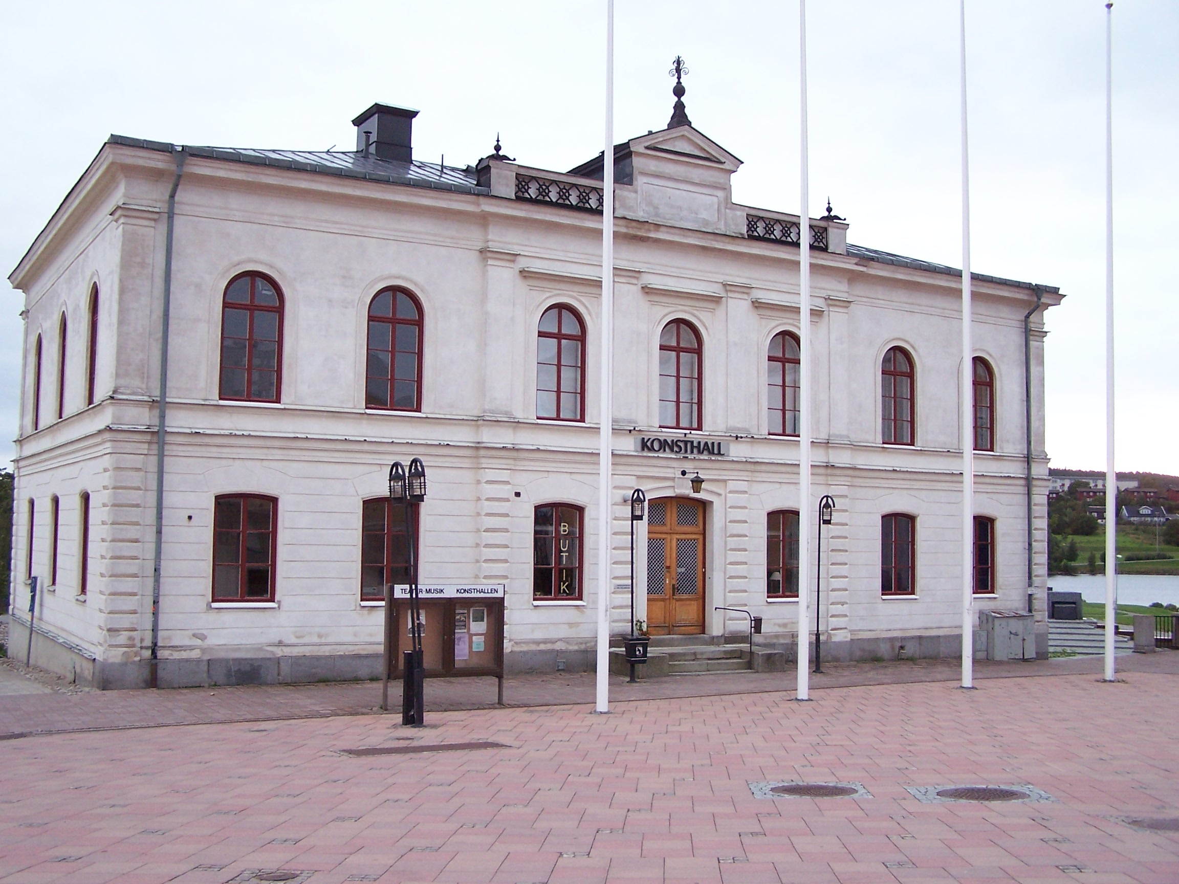 Härnösands Konsthall (Härnösand Art Gallery), Sweden.